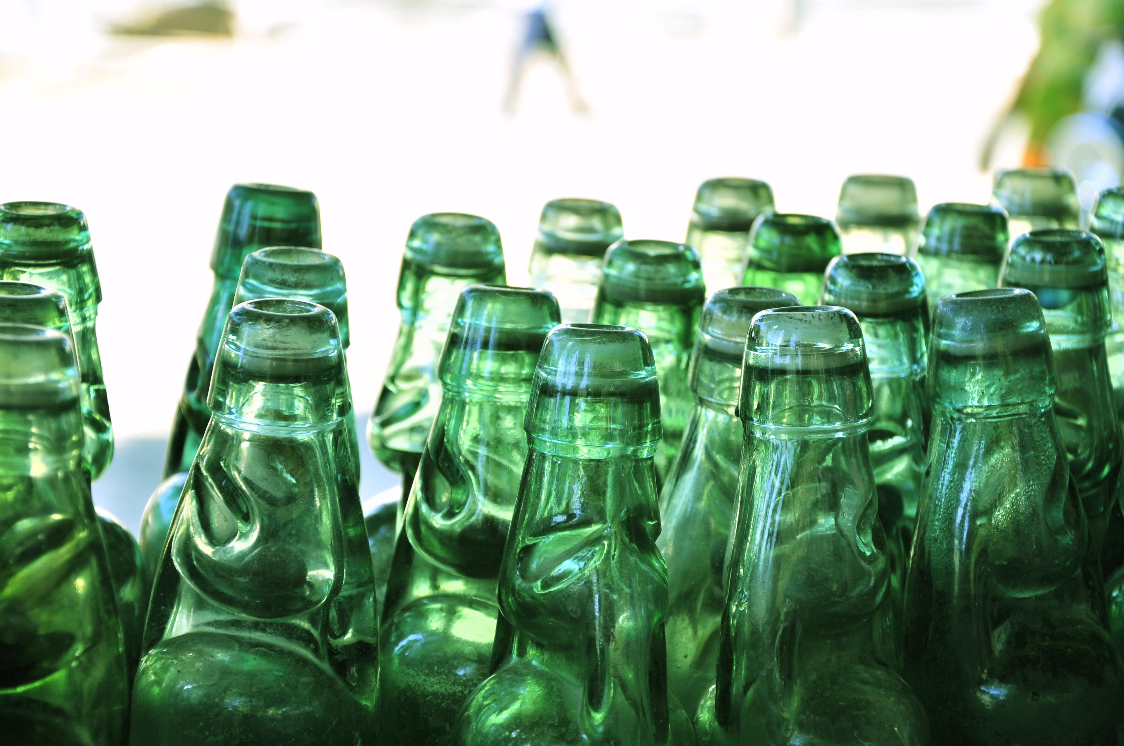 Codd-neck Soda Bottles